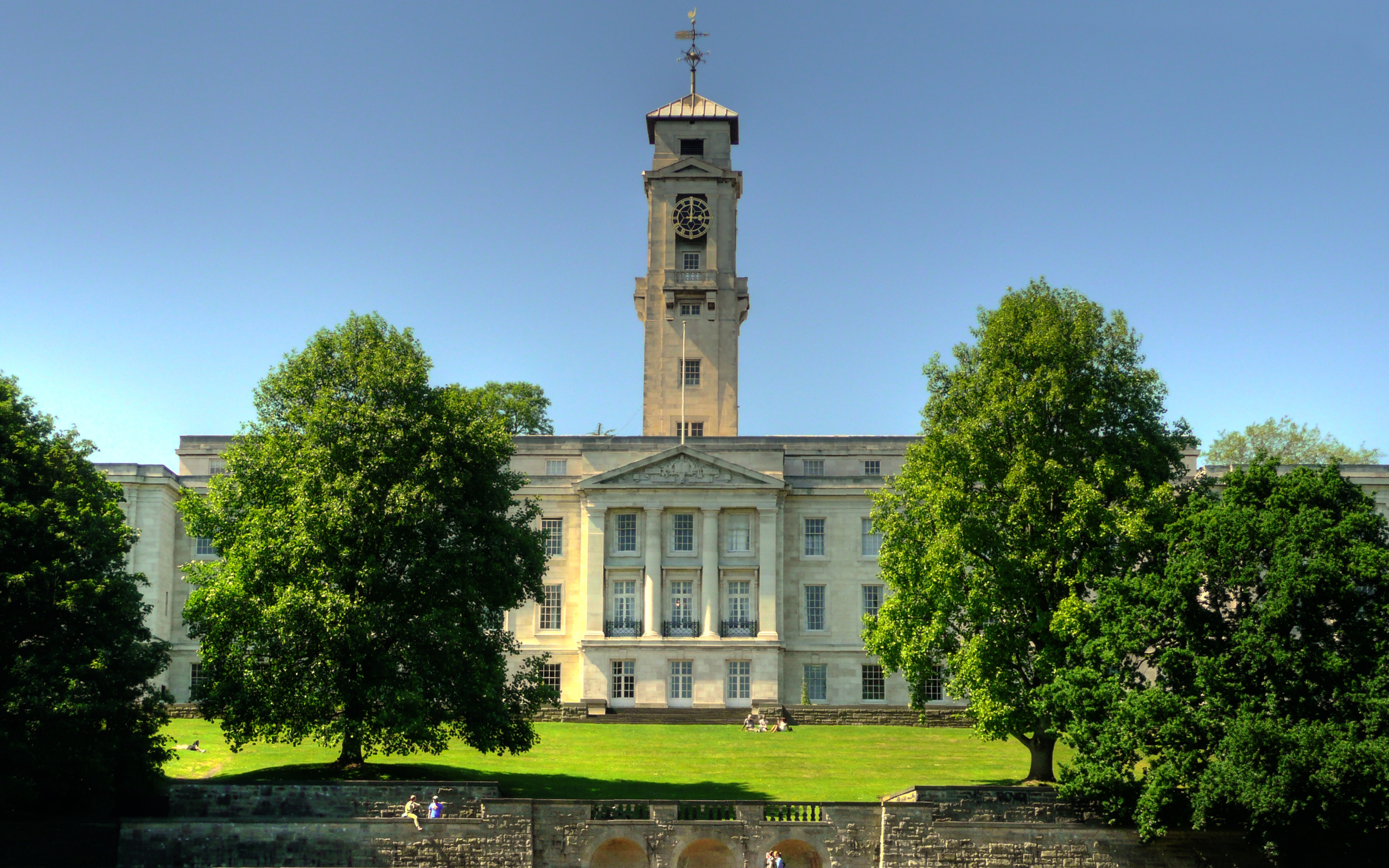 A high dynamic range (HDR) image of the Trent Building at the University of Nottingham. Composed from three seperate images (+1ev, 0ev, -1ev).